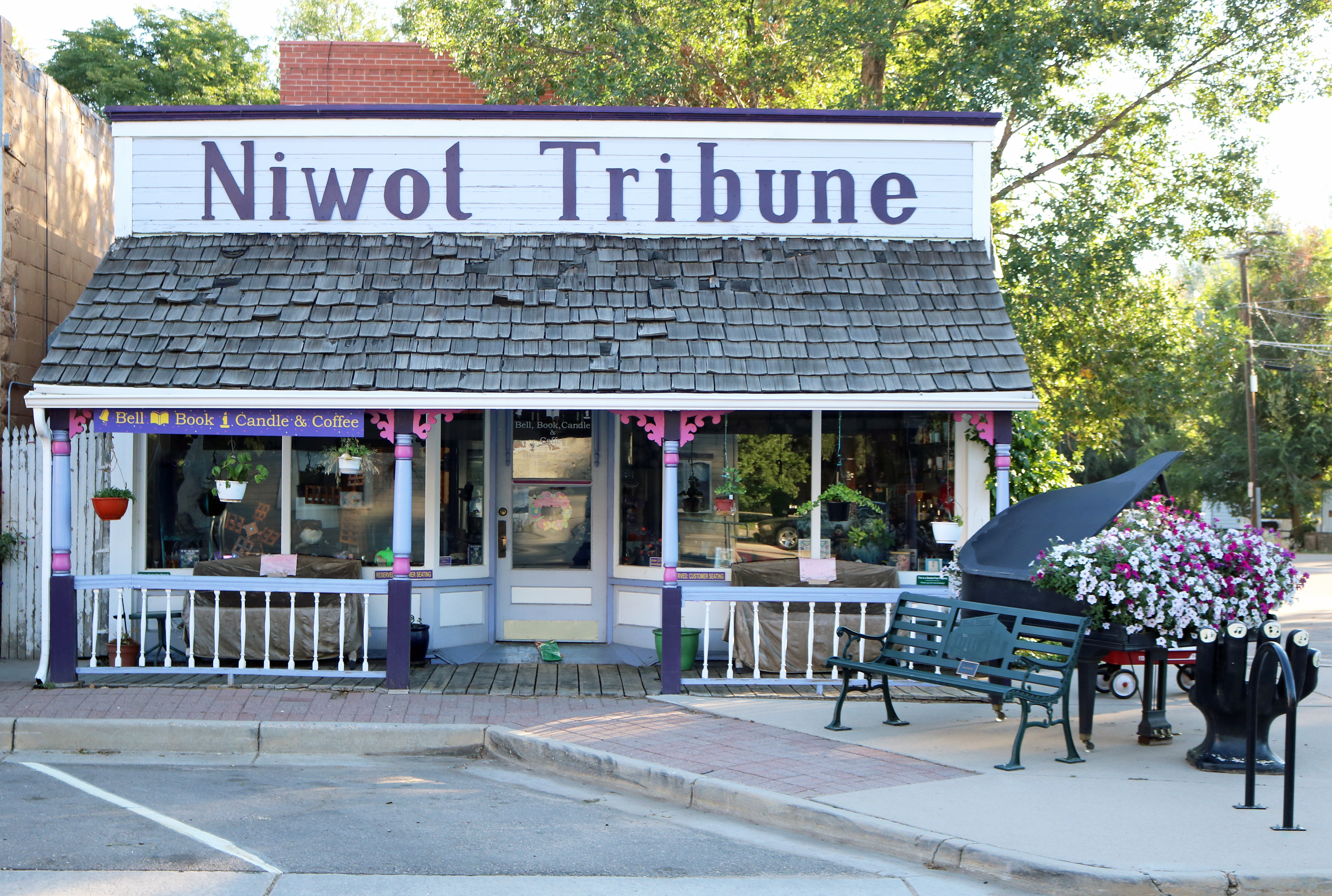 The old Niwot Tribune building, now a shop, along 2nd Avenue in Niwot, Colorado.